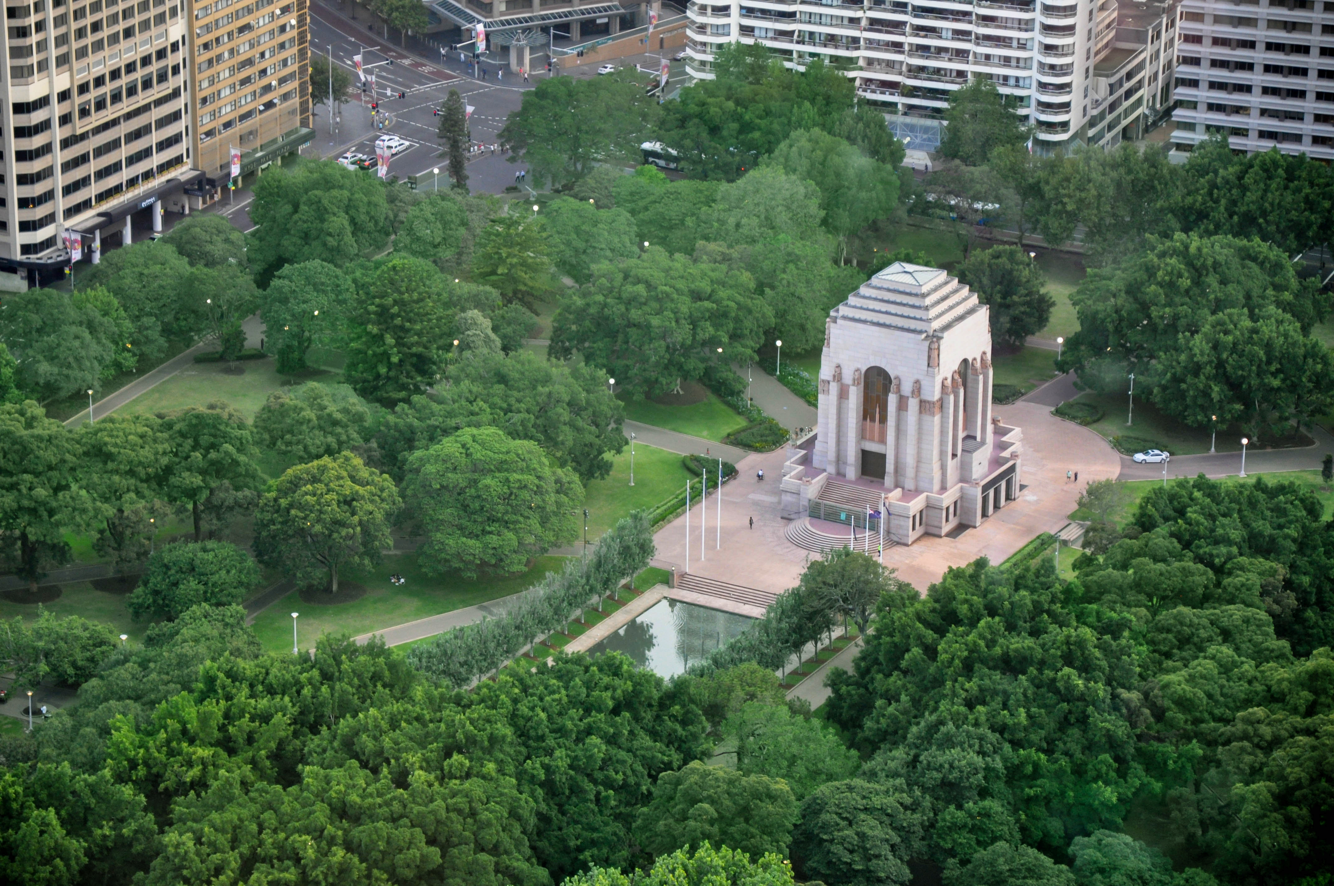 Anzac War Memorial in Sydney's Hyde Park